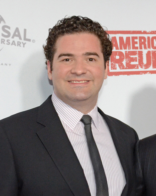 Jon Hurwitz American Reunion Premiere In Melbourne: Australia Loves Latest Pie Flick Earlier in the week 'American Reunion' enjoyed its Australian premiere in Sin City Sydney - outside the famous Harry's Cafe de Wheels to be precise, and tonight they held their Melbourne Premiere at Hoyts Melbourne Central. The cast of 'American Reunion' (better known as 'American Pie') walked the red carpet to help promote the Australian release of the latest instalment of their movie. Some of the Pie cast has been "down under" before. Pie actress Tara Reid has experienced Australia before and got to know Australian advertising industry legend John Singleton quite well a few years ago thanks to Singo's Magic Millions racing carnival on Australia's Gold Coast. 'Pie' stars including Jason Biggs, Seann William Scott, Tara Reid, Mena Suvari, Chris Klein and Eugene Levy did the red carpet playing to a large media pack. 'American Reunion' has been described by a number of media agencies and film critics as the "raunchiest" since the the original 1990s flick. Mums and dads. Public thank you to the great folks at Universal Pictures who were so helpful. We look forward to our next bit of pie, be it Australian or Americans - whatever comes first. The tag line is 'Save the best piece for last', and we are tending to agree. Thumbs up. Storyline... Over a decade has passed and the gang return to East Great Falls, Michigan, for the weekend. They will discover how their lives have developed as they gather for their high school reunion. How has life treated Michelle, Jim, Heather, Oz, Kevin, Vicky, Finch, Stiffler, and Stiffler's mom? In the summer of 1999, it was four boys on a quest to lose their virginity. Now Kara is a cute high school senior looking for the perfect guy to lose her virginity to. Websites American Reunion official website Universal Pictures NBC Universal Hoyts Music News Australia